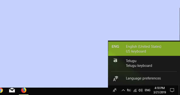 Windows 10 Screenshot for dialogs showing Telugu